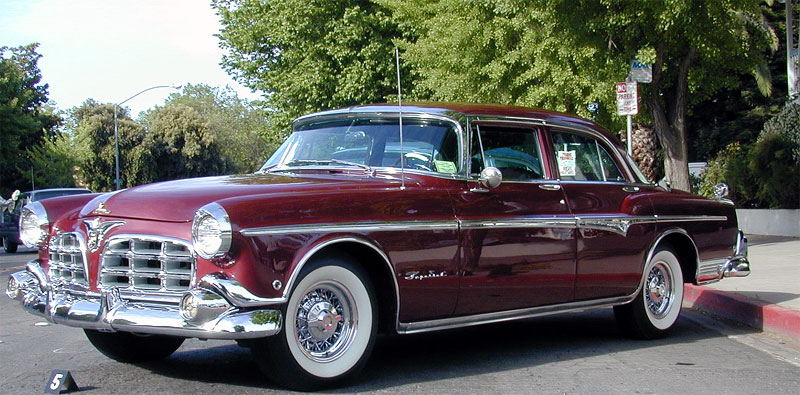 1955 Imperial Four Door Sedan (C-69 series)